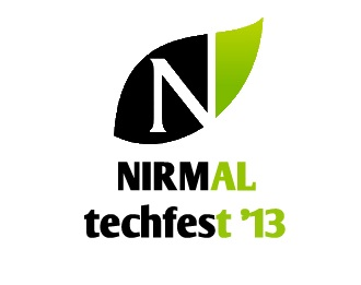 Logo of Nirmal techfest organised annually in RD's SCSCOE, PUNE